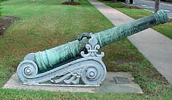 A Spanish saker made in 1686 on display at Leutze Park